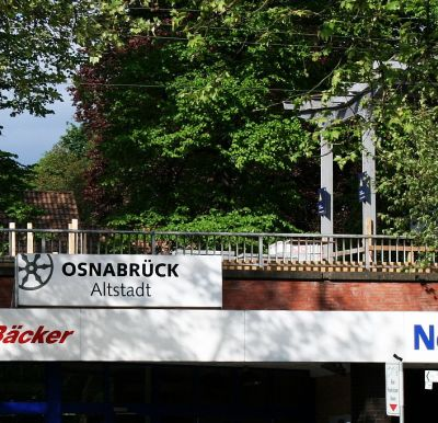 Bahnhof Osnabrueck Altstadt